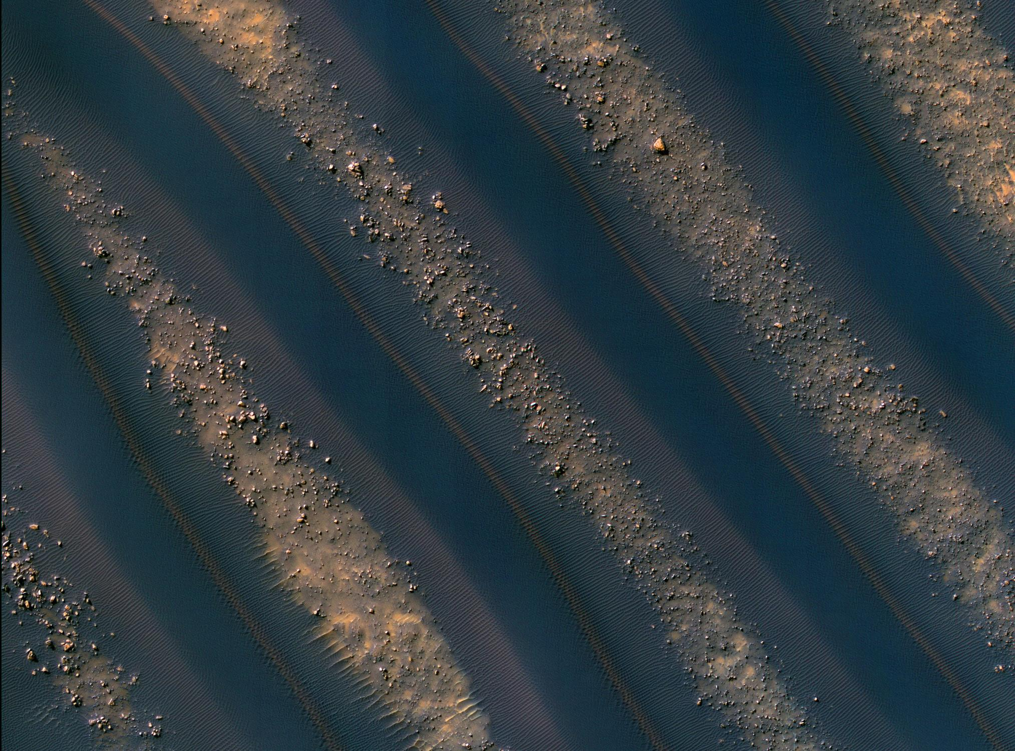 Dunes of sand-sized materials have been trapped on the floors of many Martian craters. This is one example, from a crater in Noachis Terra, west of the giant Hellas impact basin. The dunes here are linear, thought to be due to shifting wind directions. In places, each dune is remarkably similar to adjacent dunes, including a reddish (or dust coloured) band on north-east-facing slopes. Large angular boulders litter the floor between dunes.